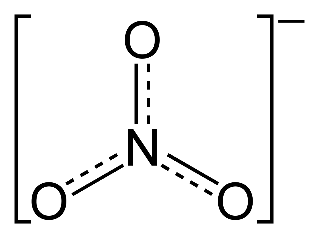 Structure and bonding in the nitrate ion, NO3−